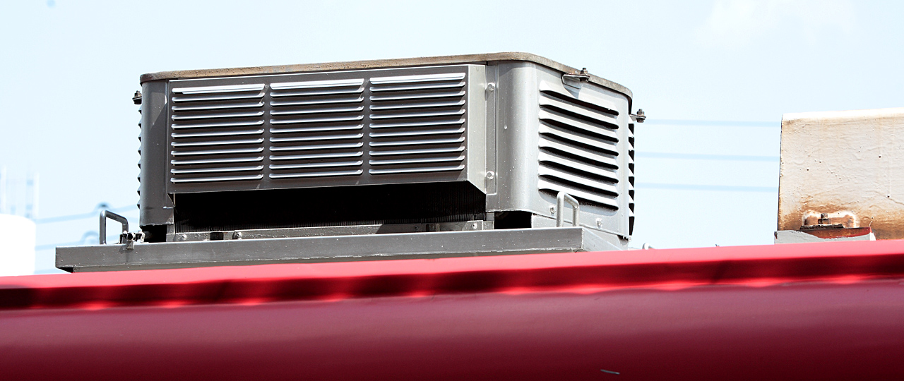 Air conditioner of Meitetsu 6600 series EMU